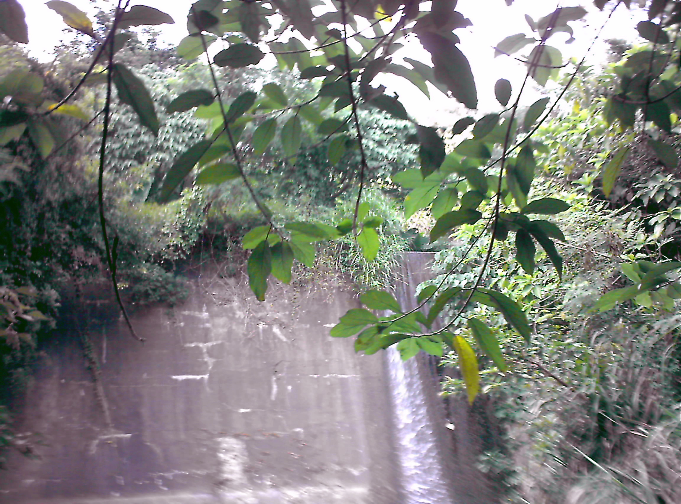 Waterfall from the overflow of Siu Sai Wu reservior, Kowloon Tong 中文（香港）: 近看滿溢的湖水濺出堤壩造成小瀑布。